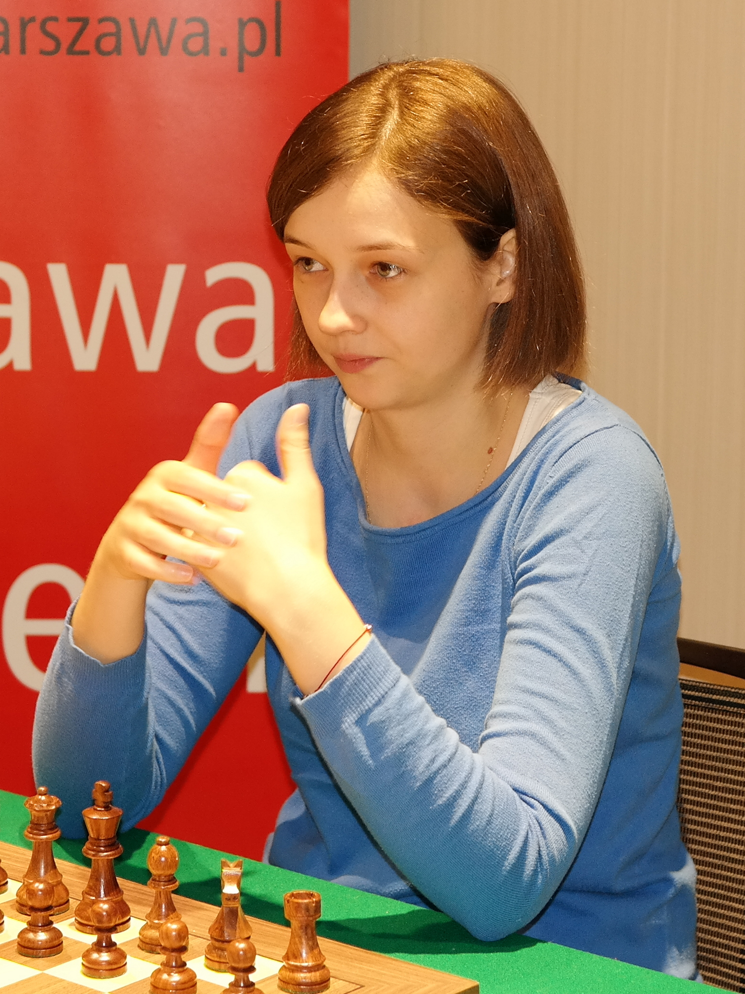 WGM Karina Szczepkowska-Horowska, Polish Chess Championship, Warsaw 2014